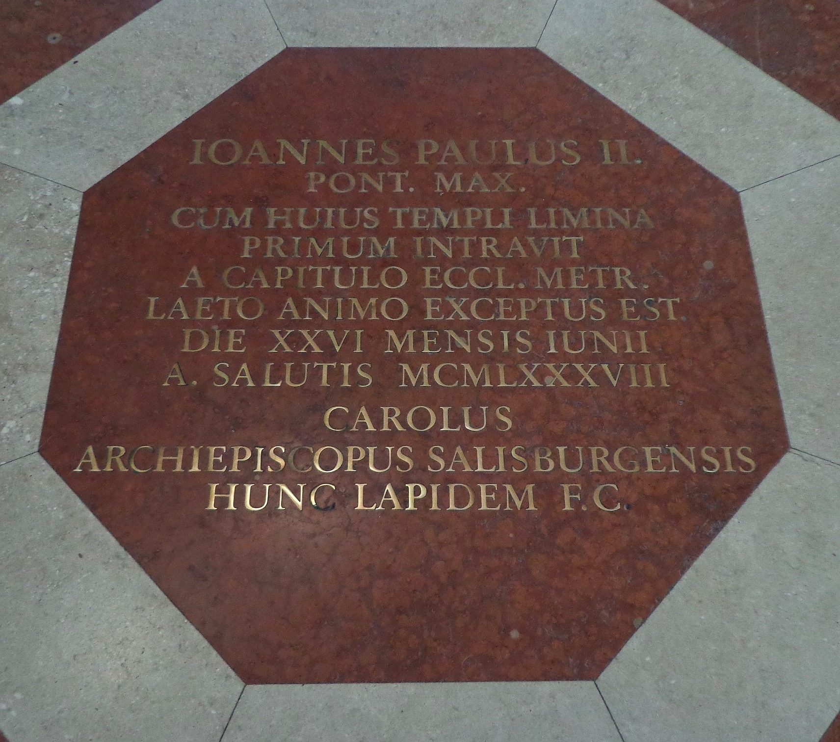 Salzburg Cathedral - floor tablet commemorating the visit of Pope John Paul II to the cathedral